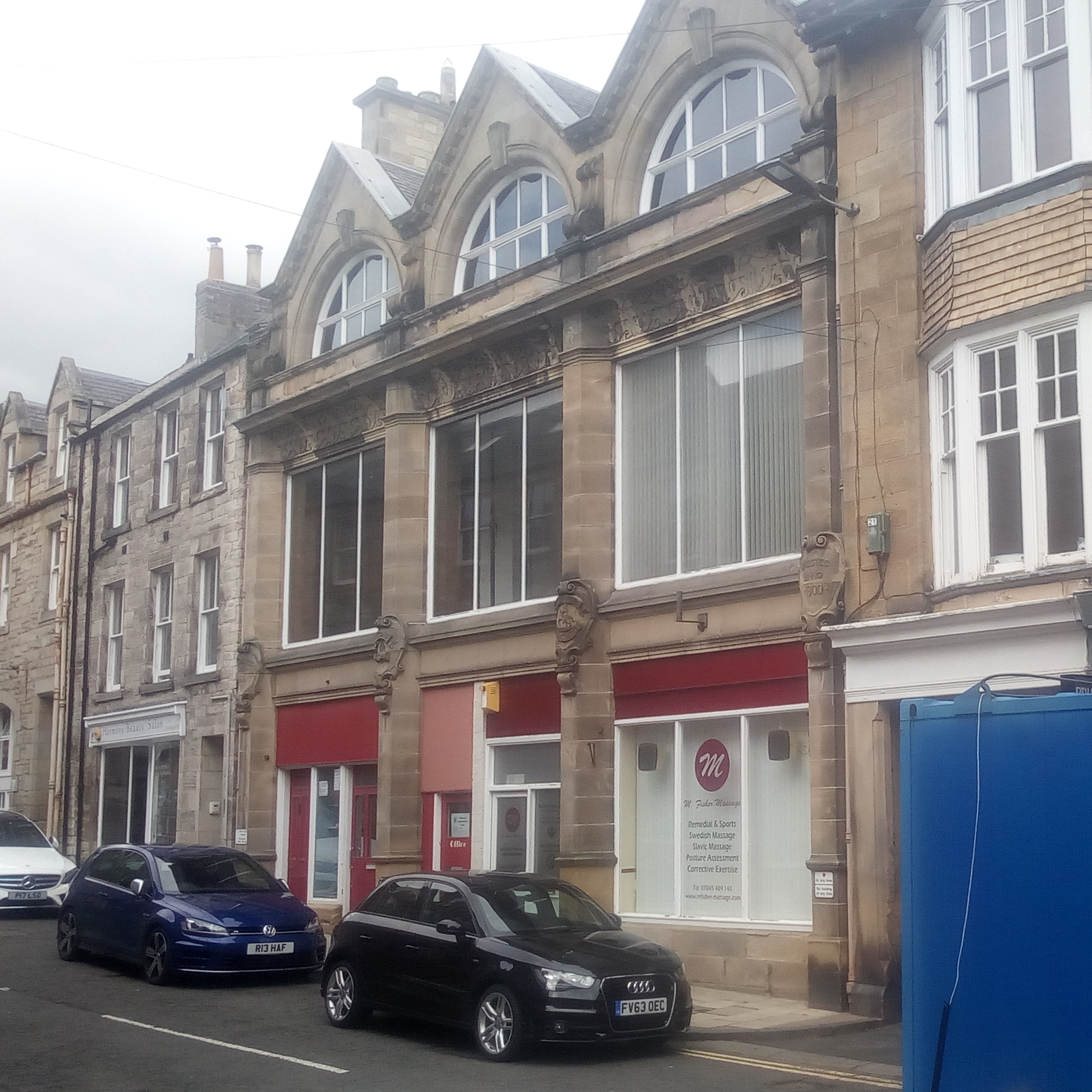 Jedburgh, 11 Exchange Street Wikidata has entry Q17567948 with data related to this item.